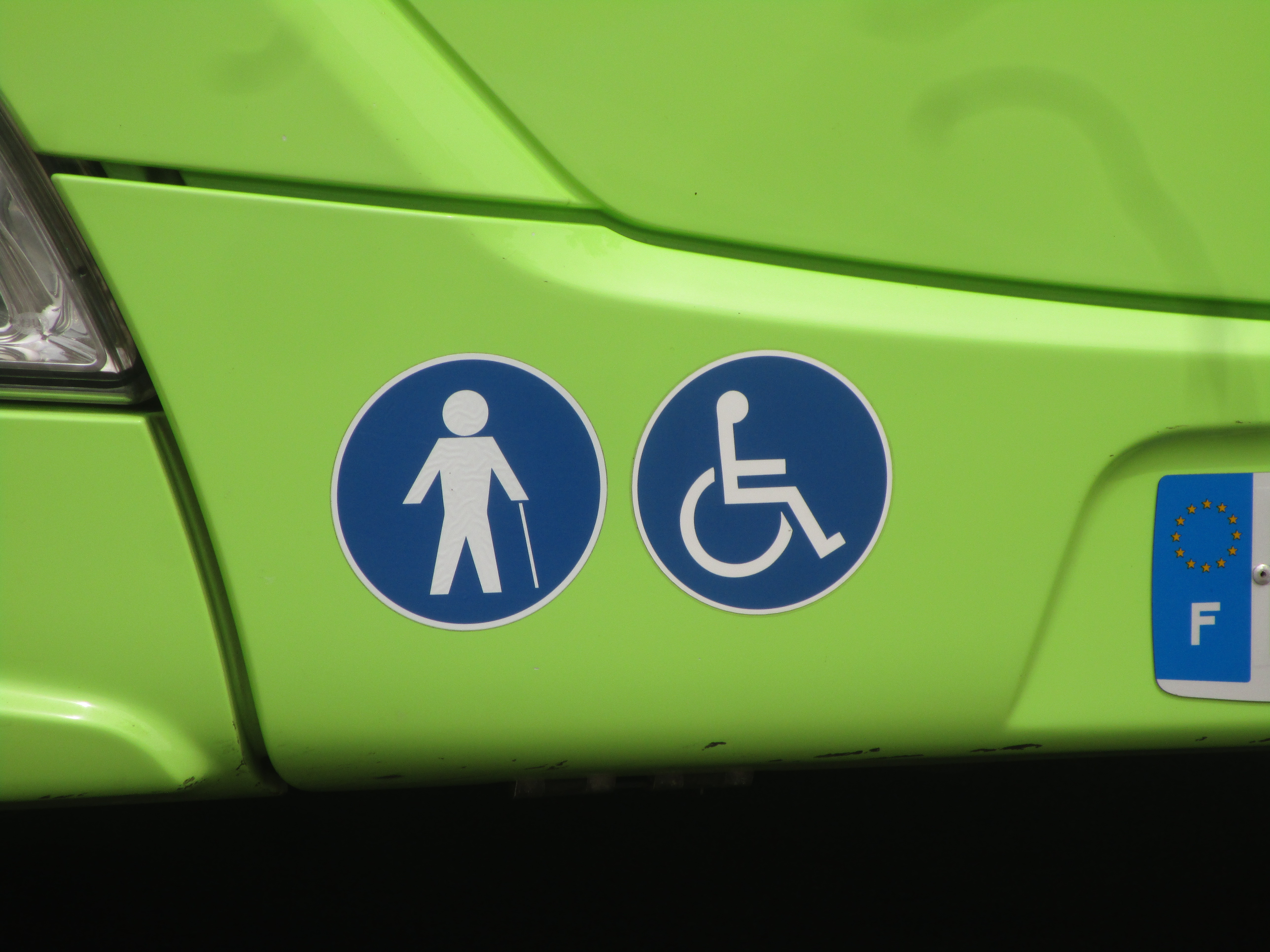 The accessibility symbols on the Mercedes-Benz Citaro K C2 n°9411 of Duobus.